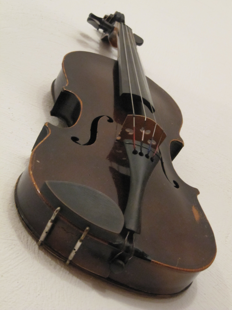 Transylvanian Violin